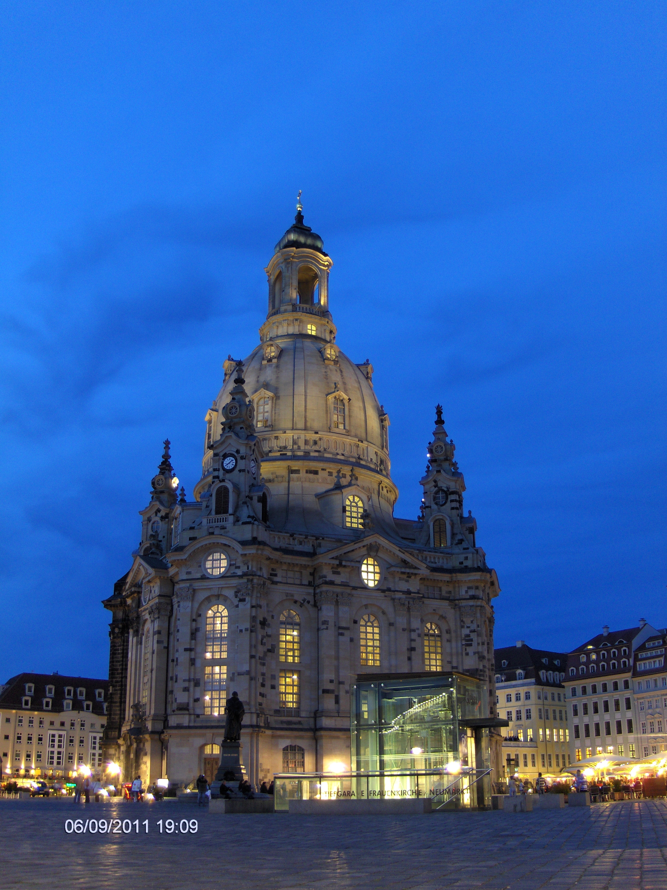 The Dresden Frauenkirche, reconstructed during 13 years of rebuilding, being finally reconsecrated on 30/10/2005.